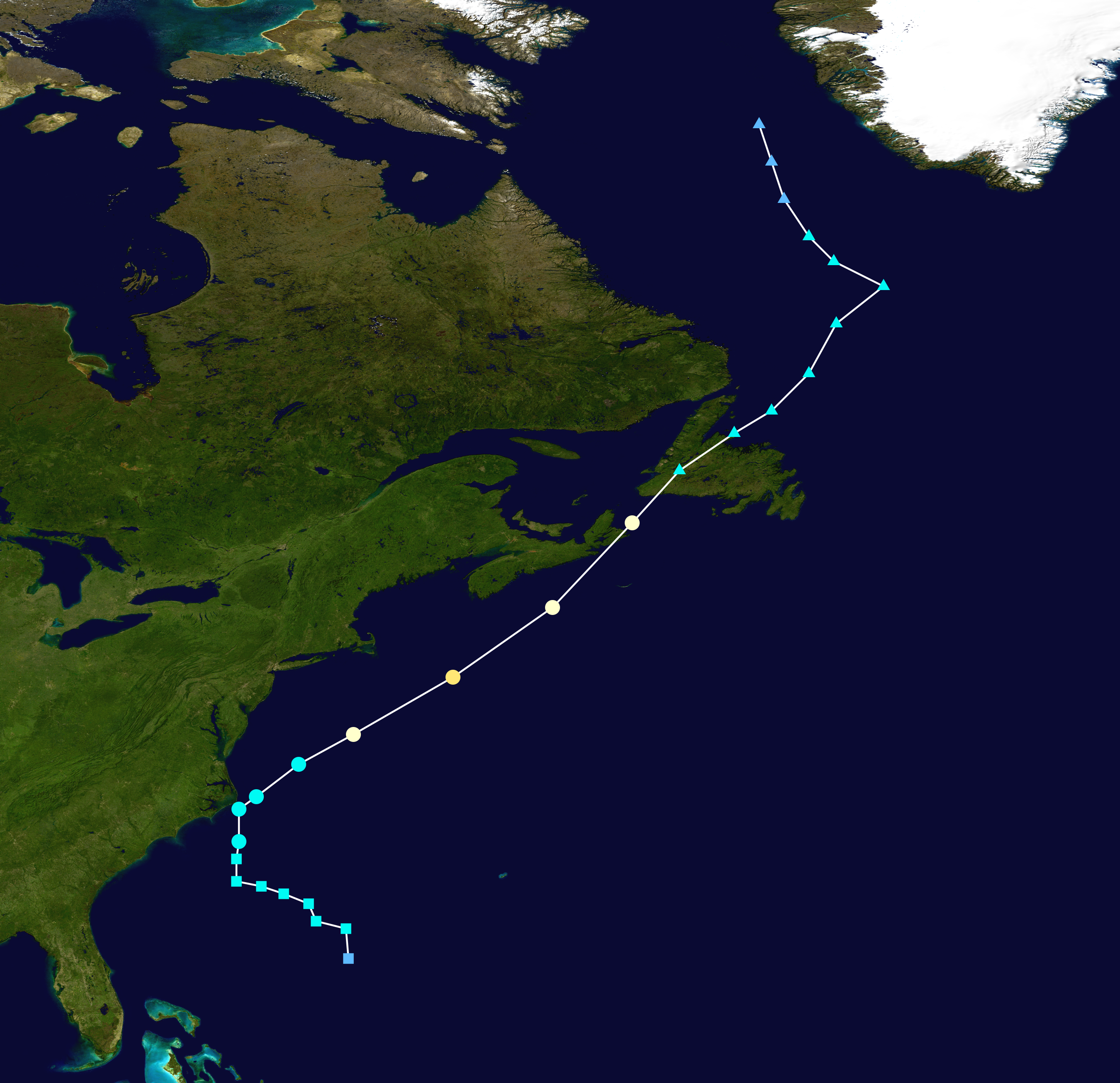 Track map of Hurricane Gustav of the 2002 Atlantic hurricane season. The points show the location of the storm at 6-hour intervals. The colour represents the storm's maximum sustained wind speeds as classified in the Saffir–Simpson scale (see below), and the shape of the data points represent the nature of the storm, according to the legend below. Saffir–Simpson scale Tropical depression≤38 mph≤62 km/h Category 3111–129 mph178–208 km/h Tropical storm39–73 mph63–118 km/h Category 4130–156 mph209–251 km/h Category 174–95 mph119–153 km/h Category 5≥157 mph≥252 km/h Category 296–110 mph154–177 km/h Unknown Storm type Tropical cyclone Subtropical cyclone Extratropical cyclone / Remnant low / Tropical disturbance / Monsoon depression